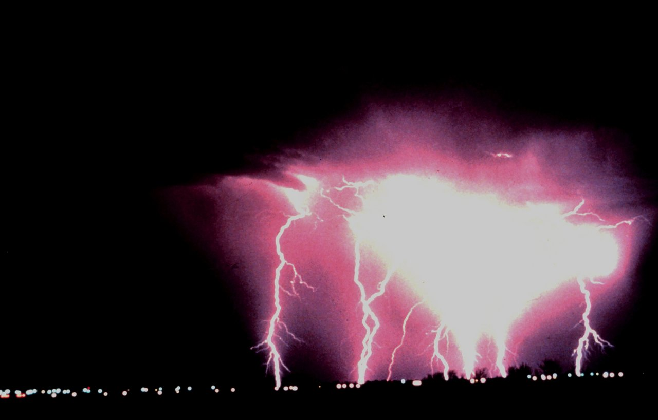 Cloud-surface lightning in Norman, Oklahoma 1978